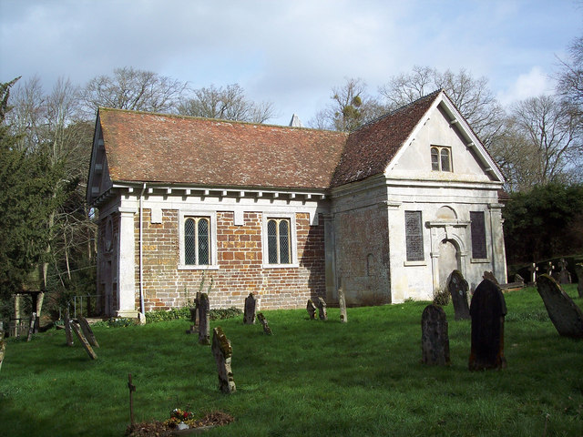 St Marys, Hale